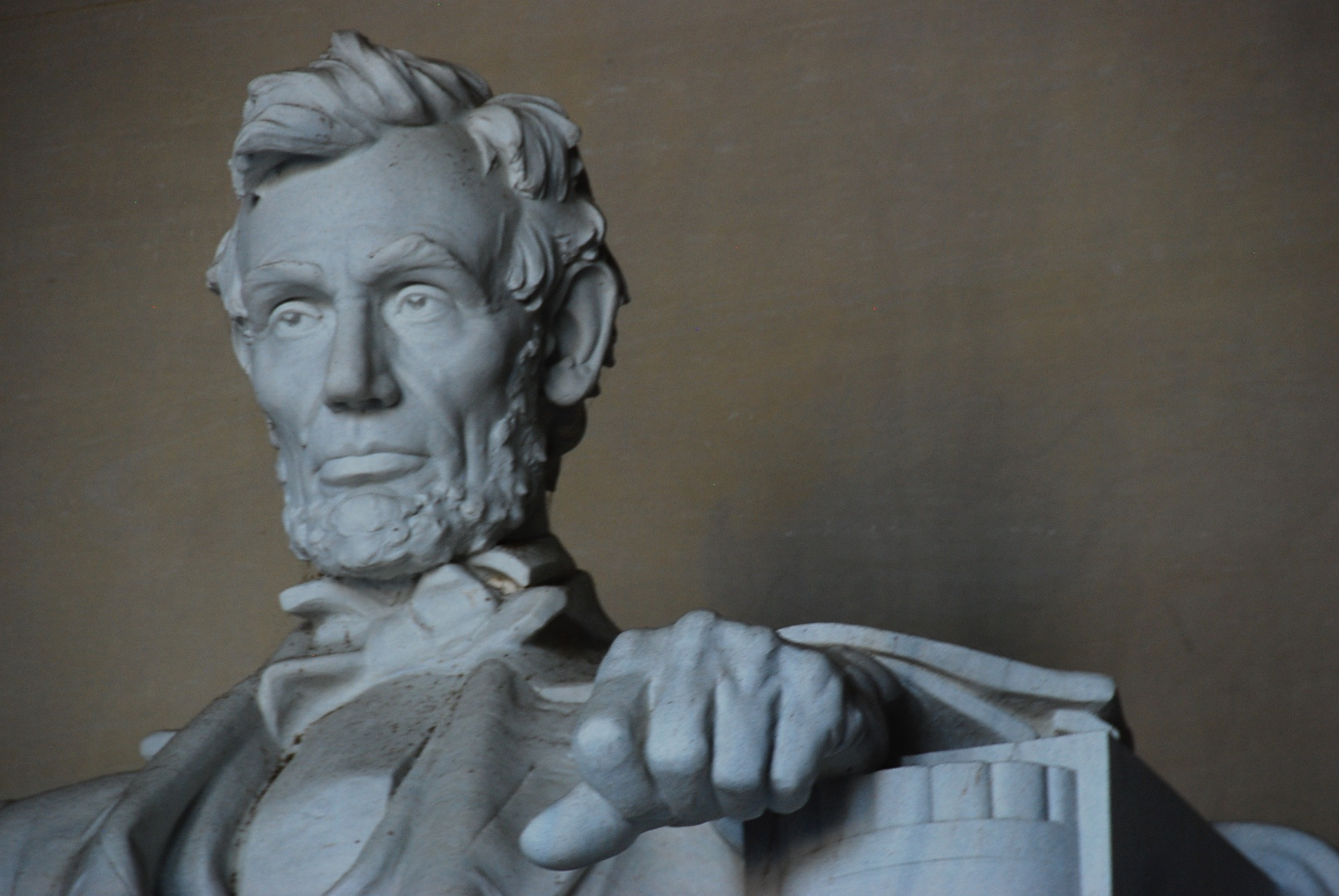 The statue inside of the Lincoln Memorial in Washington, D.C. is rare in that it shows Mr. Lincoln sitting instead of standing as most statues do. I believe this is symbolic of his patient yet strong character that led the United States through the Civil War from 1861-1865. His hand is clinched signifying strength and resolve.